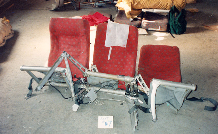 A picture of a row of seats from Avianca Flight 52, showing the way the frames collapsed upon impact. The collapse of the aircraft seats contributed to the injuries suffered in the crash.